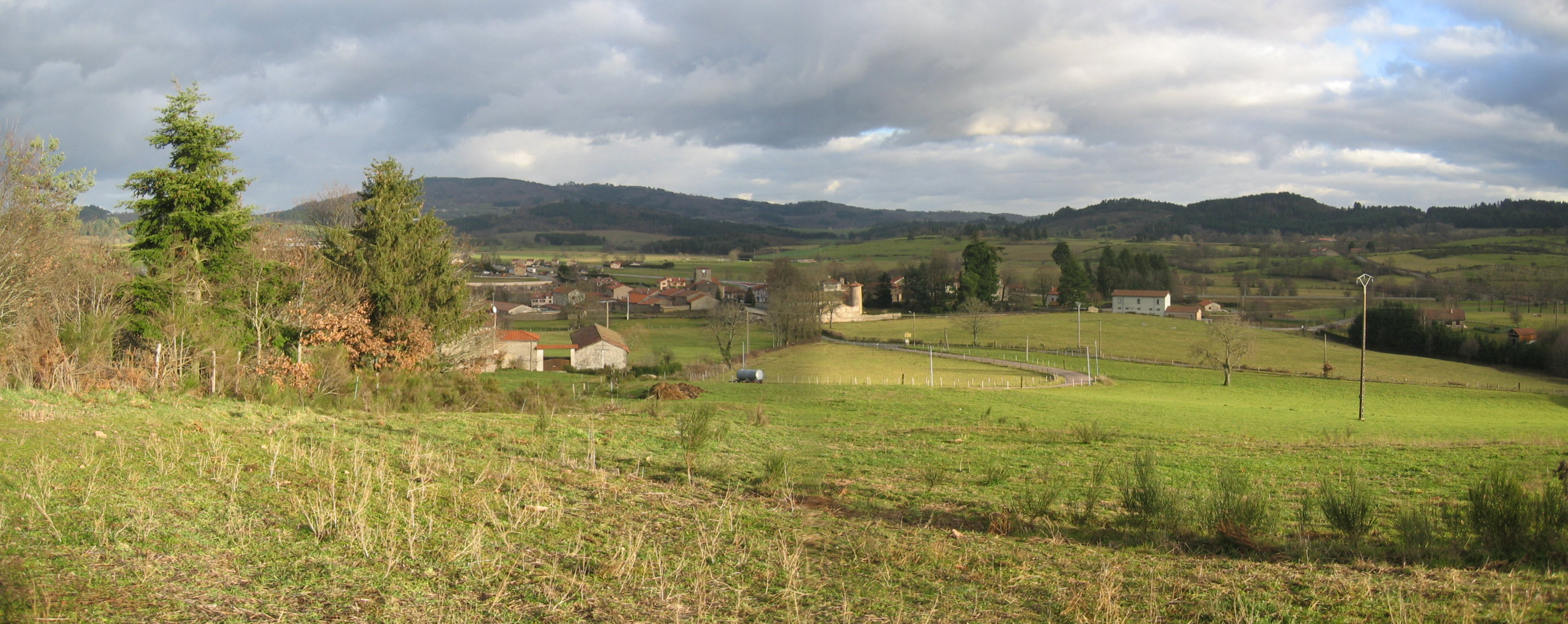 Panorama village des Salles depuis les hauteurs de la Croix Blanche